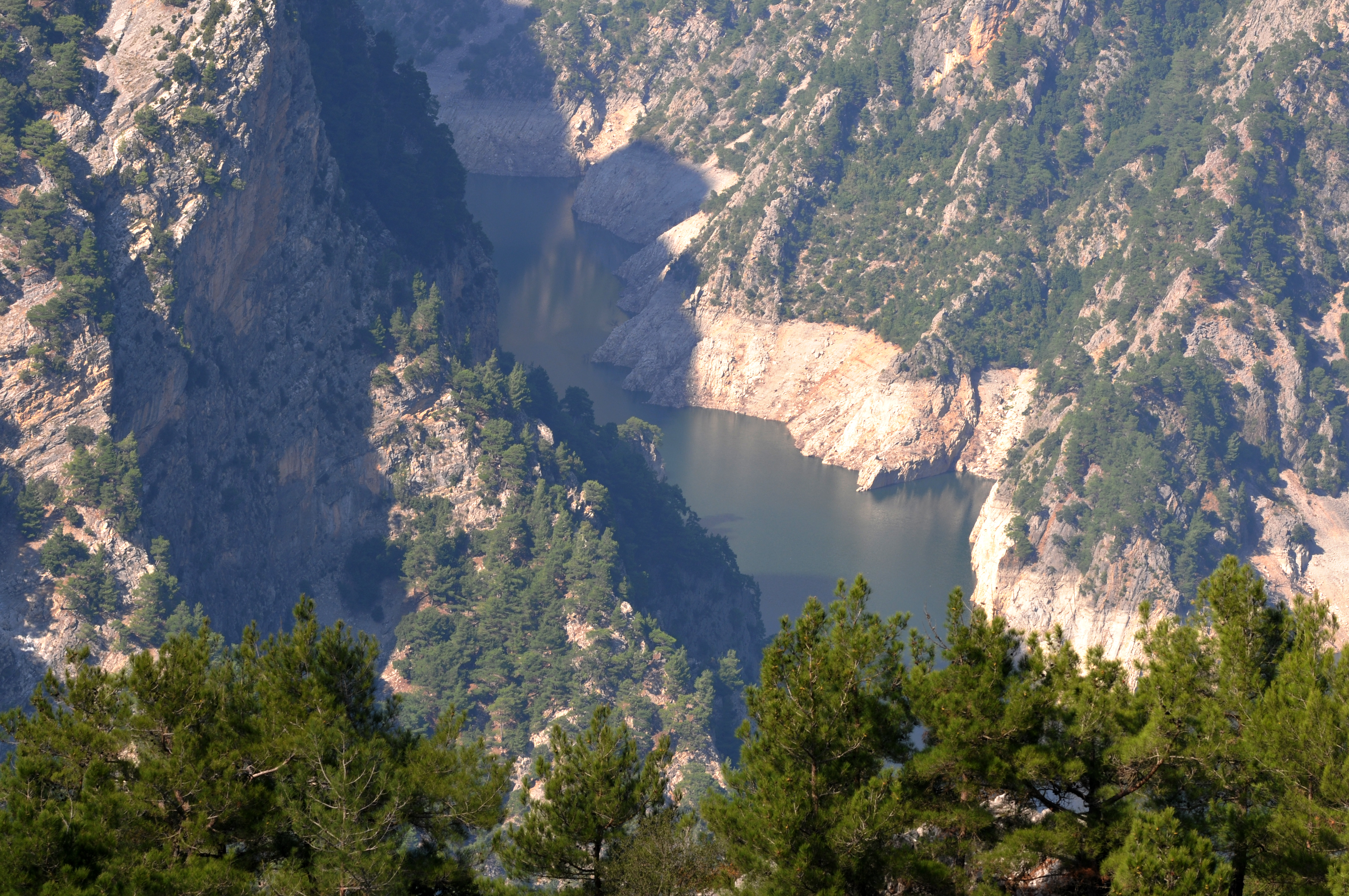 A view of the lower end of Berke Dam on Ceyhan River from Mount Düldül, Düziçi - Osmaniye, Turkey.